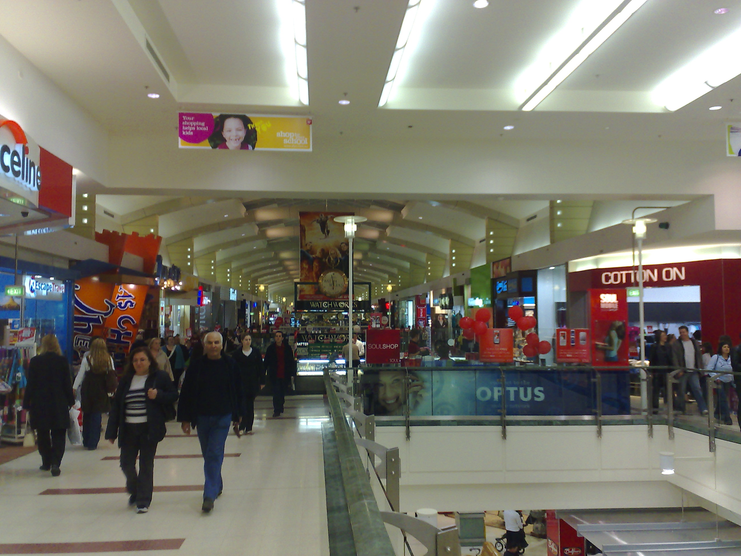 Western wing of the mall, facing west.